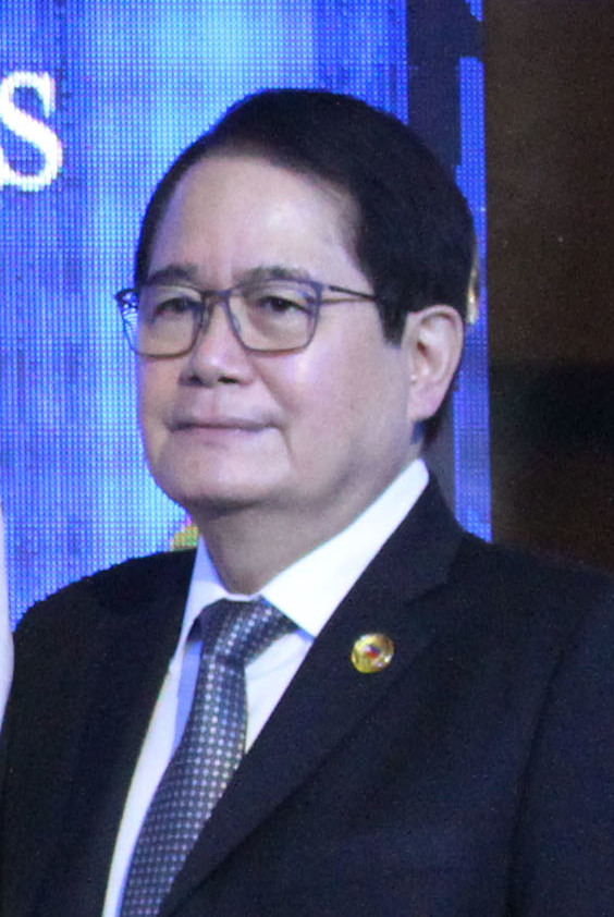 Bowler Olivia "Bong" Coo (second from left), a four time ten-pin bowling World Champion, was among the 10 outstanding athletes enshrined in the Philippine Sports Commission (PSC) Hall of Fame during the awarding ceremony at the Philippine International Convention Center in Pasay City on Thursday (Nov. 22, 2018). Also, in photo (from left) are Games and Amusements Board (GAB) Chairman Abraham Mitra, PSC Chairman William Ramirez and Philippine Olympic Committee President Ricky Vargas.